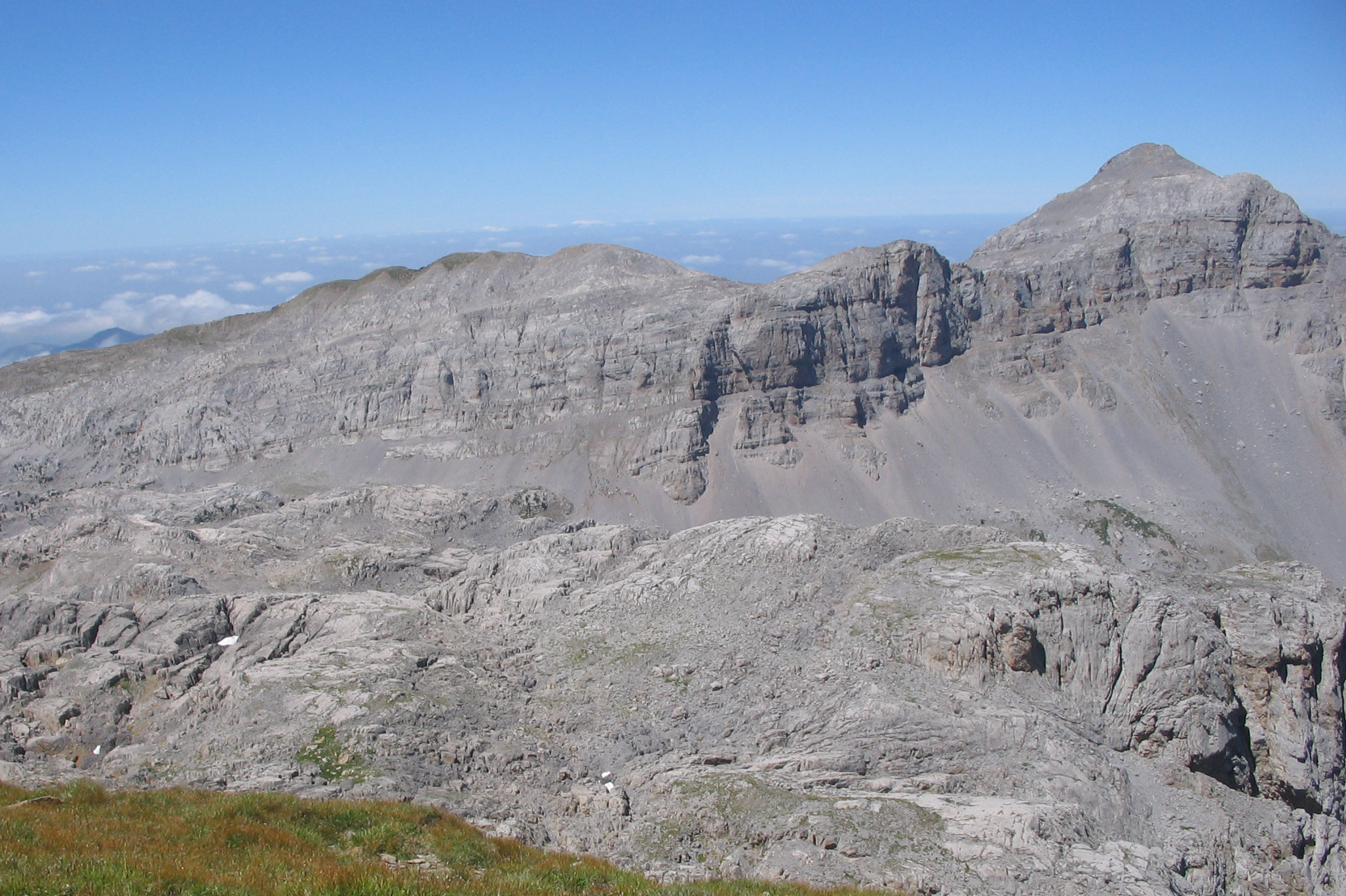 The Pic d'Anie and a part of its lapiaz, as seen from the Table des Trois Rois